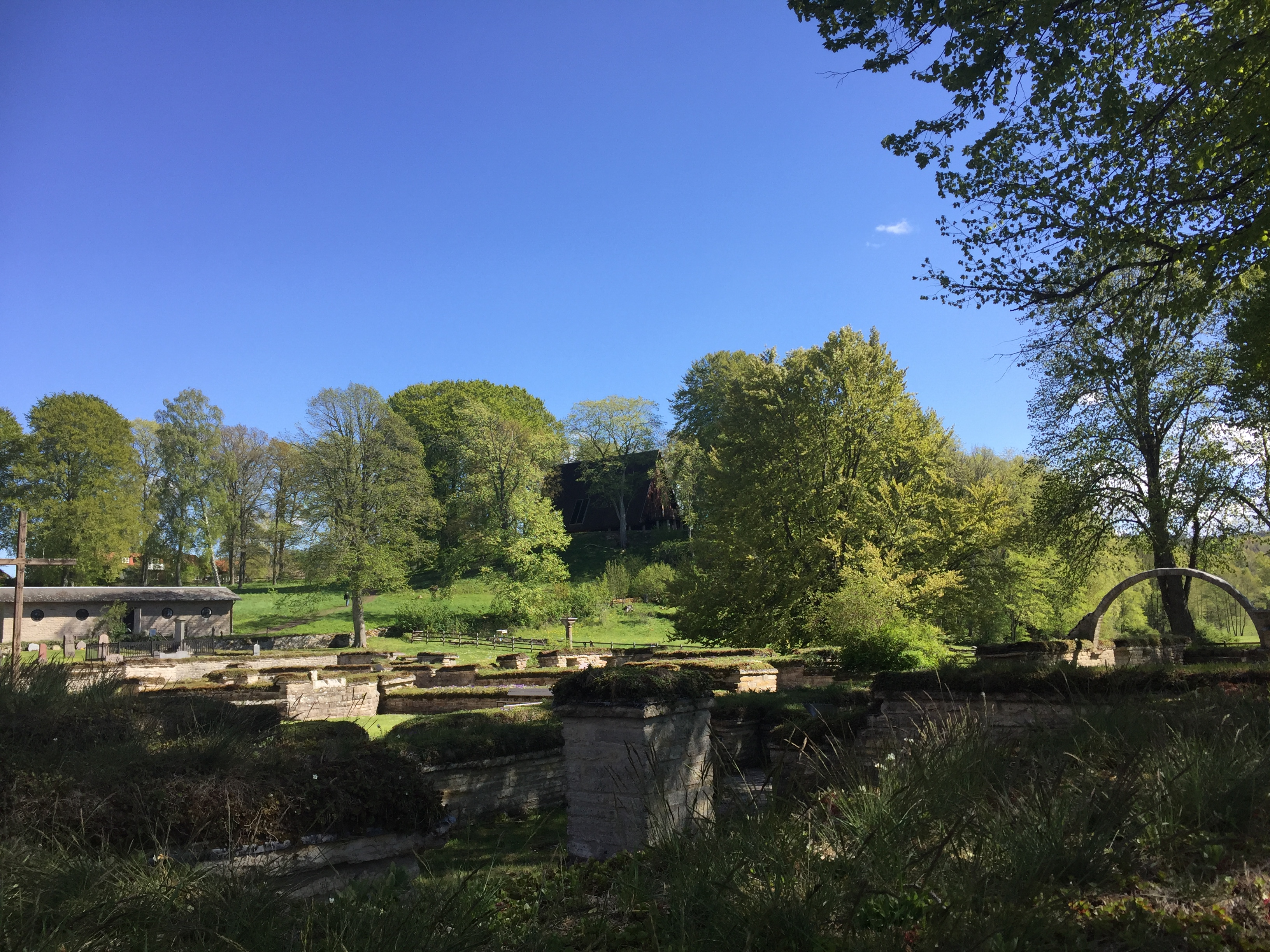 Kata gård from a distance